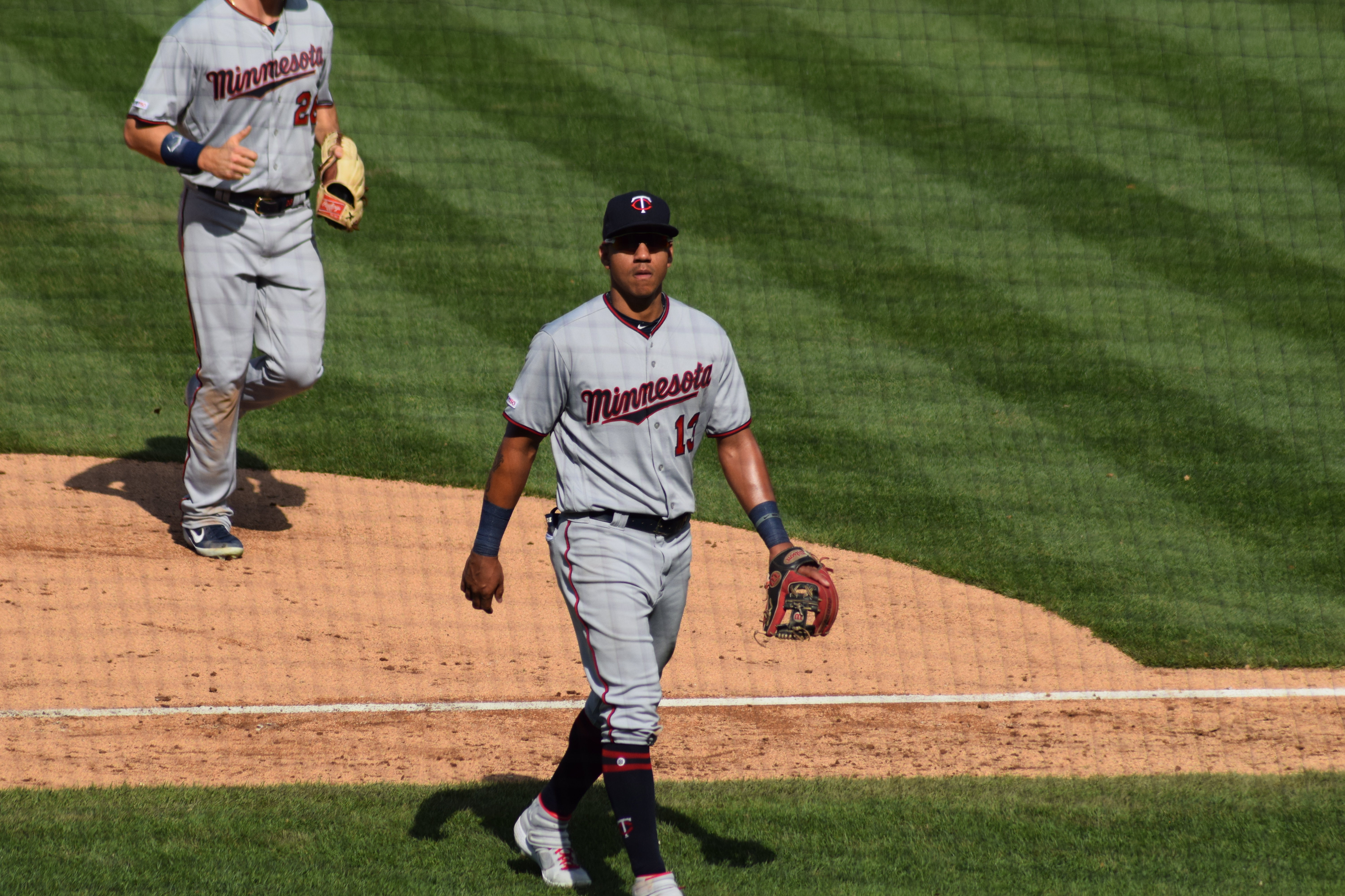 Twins infielder Ehire Adrianza